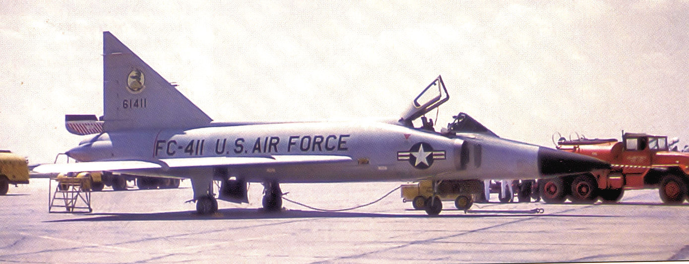 4780th Air Defense Wing Convair F-102A-75-CO Delta Dagger 56-1411